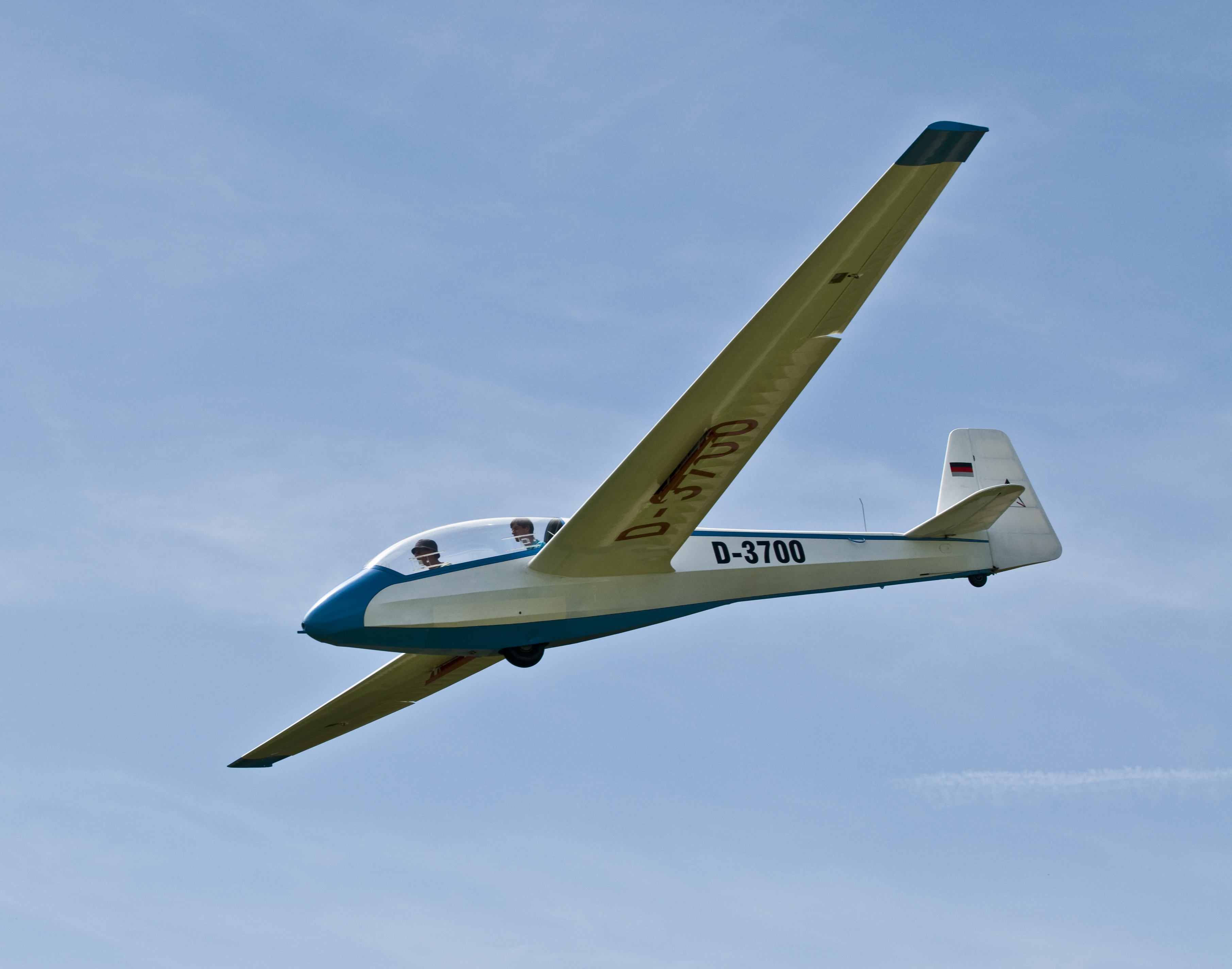 A picture Of a Scheibe Bergfalke-IV on final